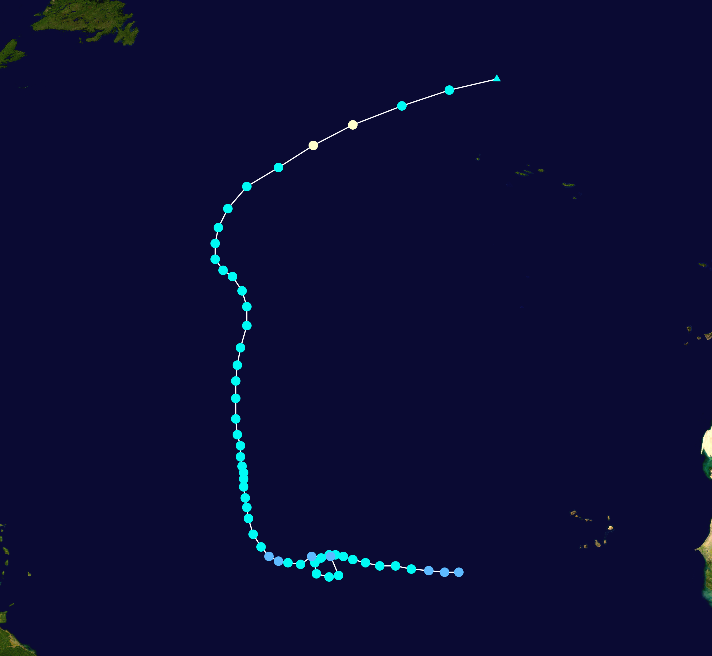 Track map of Hurricane Lisa of the 2004 Atlantic hurricane season. The points show the location of the storm at 6-hour intervals. The colour represents the storm's maximum sustained wind speeds as classified in the Saffir–Simpson scale (see below), and the shape of the data points represent the nature of the storm, according to the legend below. Saffir–Simpson scale Tropical depression≤38 mph≤62 km/h Category 3111–129 mph178–208 km/h Tropical storm39–73 mph63–118 km/h Category 4130–156 mph209–251 km/h Category 174–95 mph119–153 km/h Category 5≥157 mph≥252 km/h Category 296–110 mph154–177 km/h Unknown Storm type Tropical cyclone Subtropical cyclone Extratropical cyclone / Remnant low / Tropical disturbance / Monsoon depression